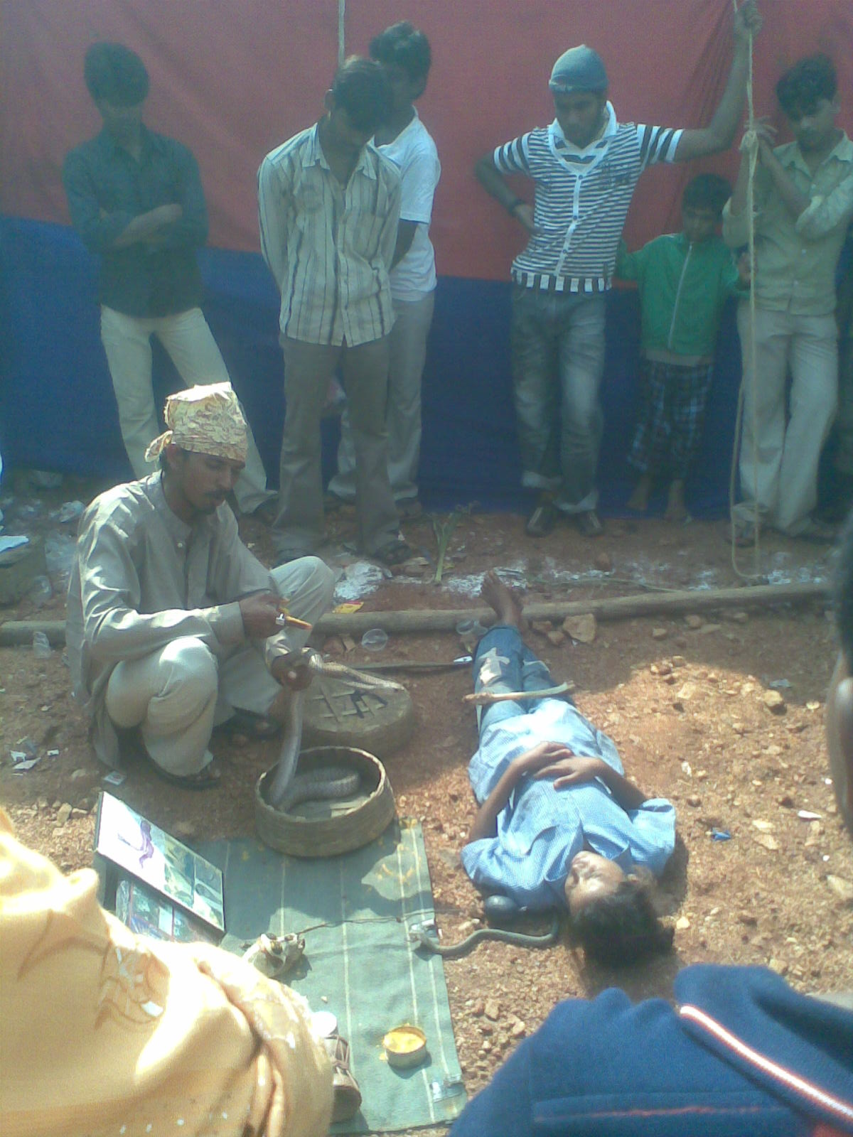 Bazar Magic with Snake